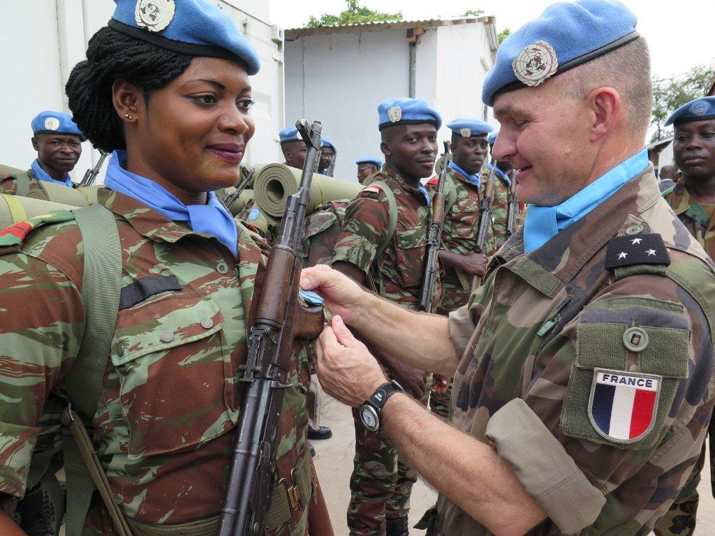 Kalemie, Province of Tanganyika, DR Congo: Medal ceremony for 450 peacekeepers of Benin including 21 women. This ceremony was presided over by the Deputy Commander of the MONUSCO Force, General Commins in the presence of the provincial authorities. The Beninese peacekeepers have been deployed in Upper Katanga and Tanganyika provinces since March 2016. Photo MONUSCO / Marcelline Comlan